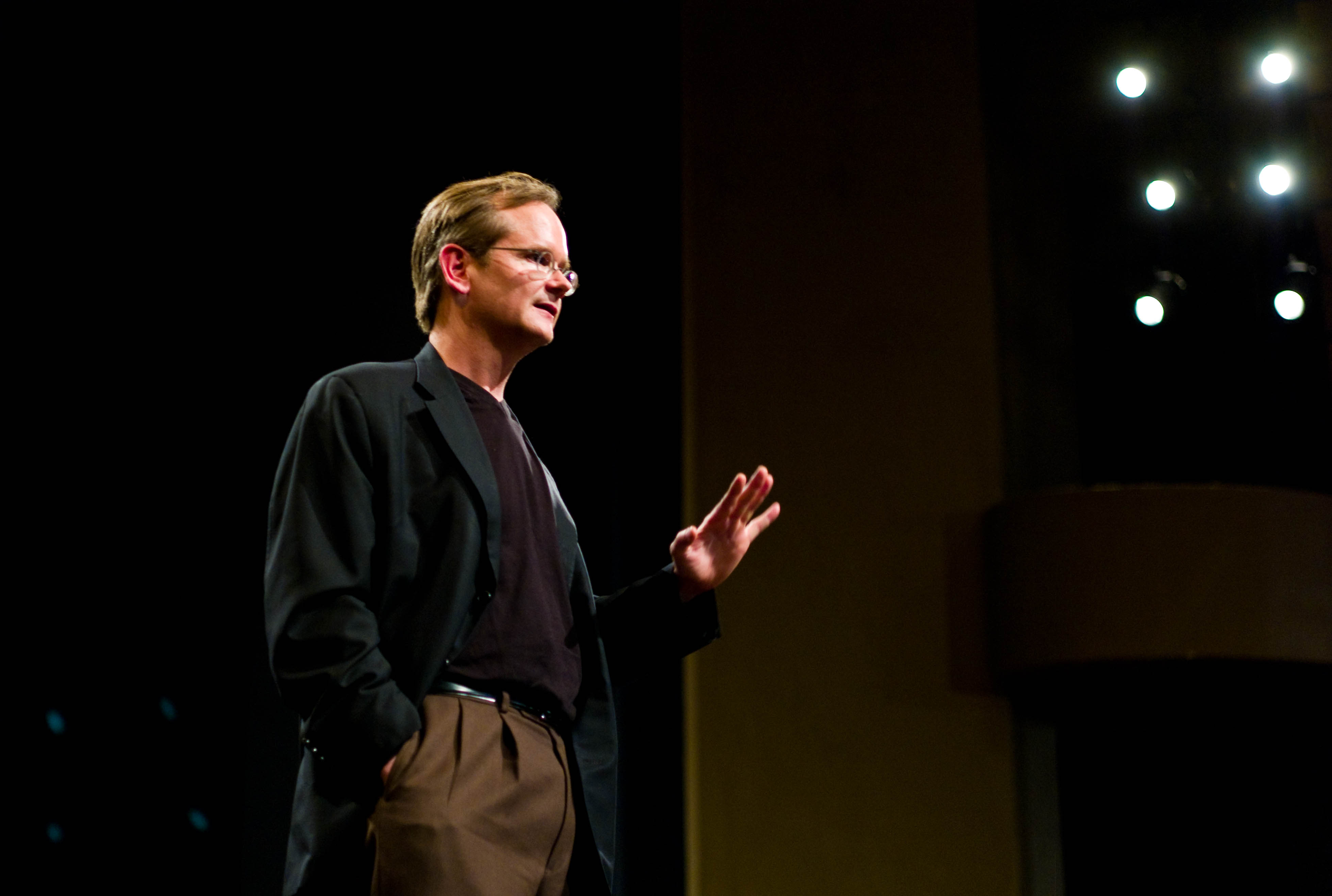 Lawrence Lessig (Giving final talk about Free Culture at Stanford)